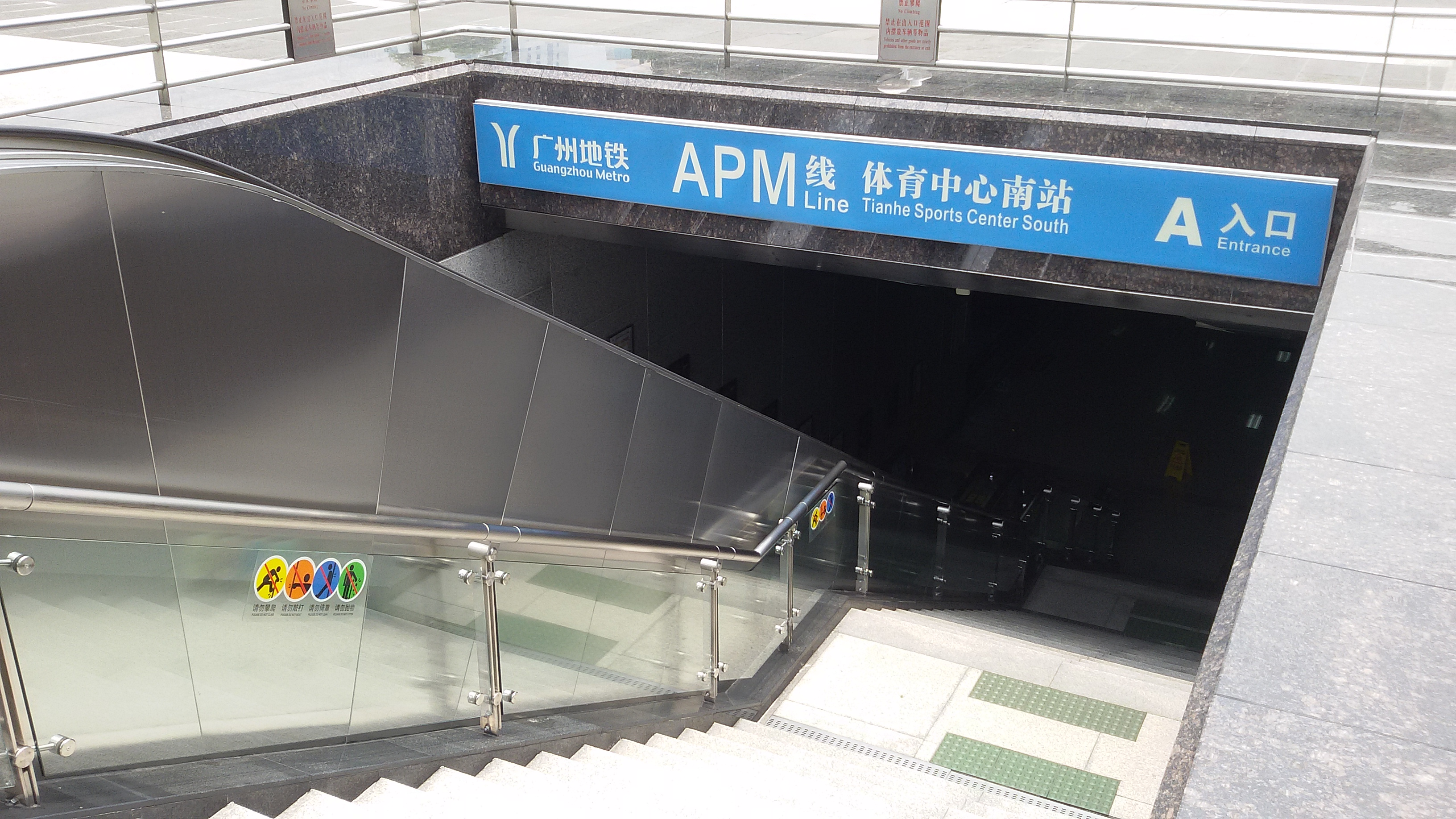 Exit A, Tianhe Sports Center South Station, Guangzhou Metro 粵語: 體育中心南站嘅A出入口